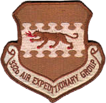 332d Air Expeditionary Group - Desert - Emblerm